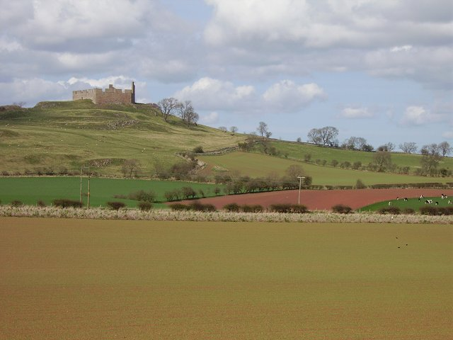 Below Hume Castle. How varied an agricultural scene is this? A herd of Friesians, arable fields,pastures and rough grazing...